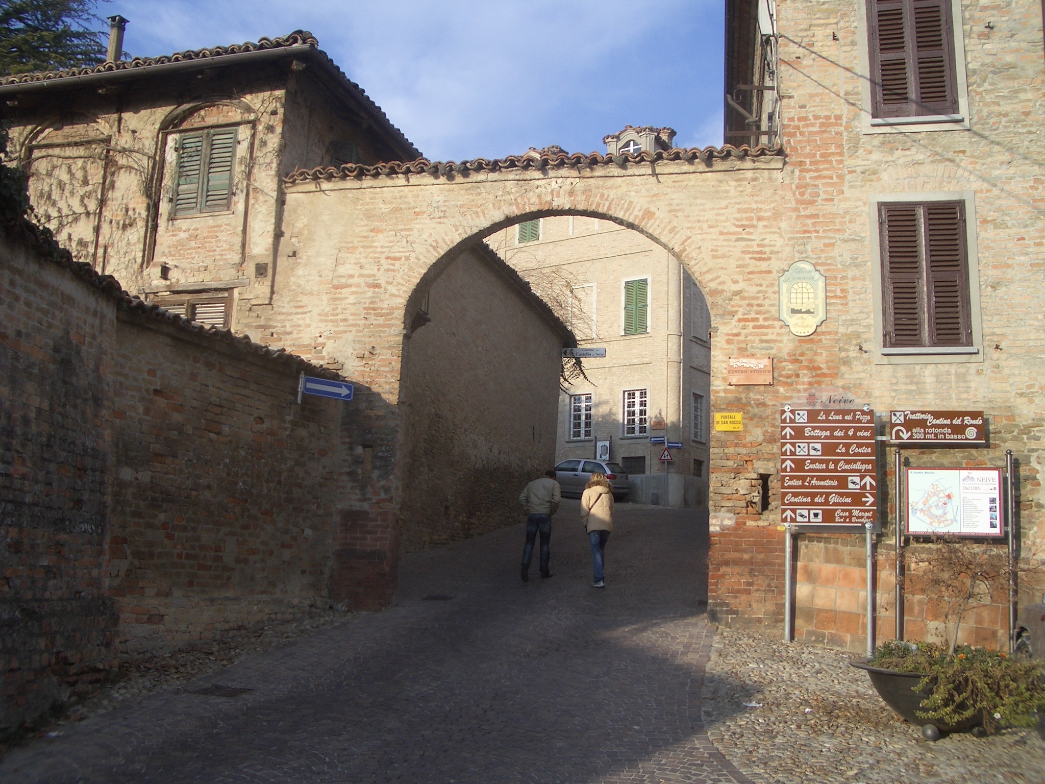 Entrance to the town: St. Rock door , Neive, Cuneo, Italy